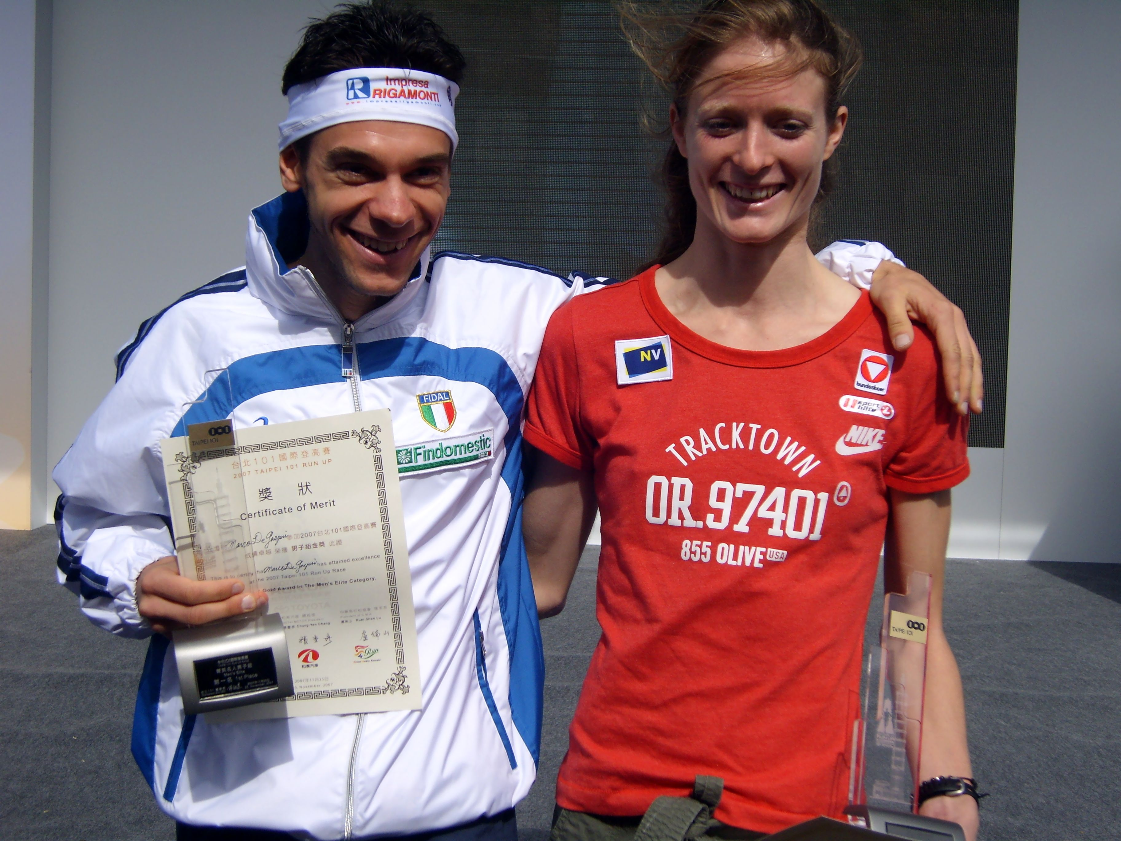 2007 Taipei 101 Run Up - Elite Group: Men's and Women's Champions - Marco De Gasperi & Andrea Mayr.